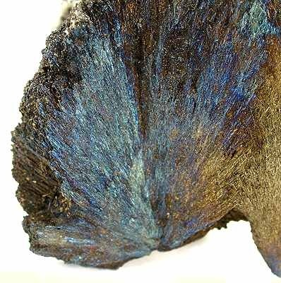 Berthierite Locality: Herja Mine (Kisbánya), Baia Mare (Nagybánya), Maramures County, Romania (Locality at ) Size: 9.0 x 7.2 x 6.0 cm. A very large fine specimen of iridescent berthierite crystals, with a bit of attached matrix.